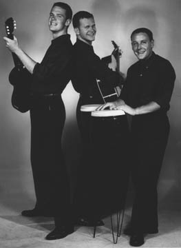 A formal publicity shot of the original line-up of the Kingston Trio (l-r) Dave Guard, Bob Shane, Nick Reynolds